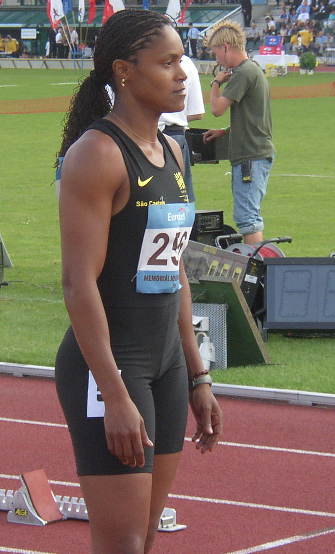 Lucimar Aparecida de Moura, Brazilian athlete (sprinter), at Josef Odložil Memorial, Prague, 27th June 2005 (she won the 200 m in 23.00 s, wind +1.0 m/s).